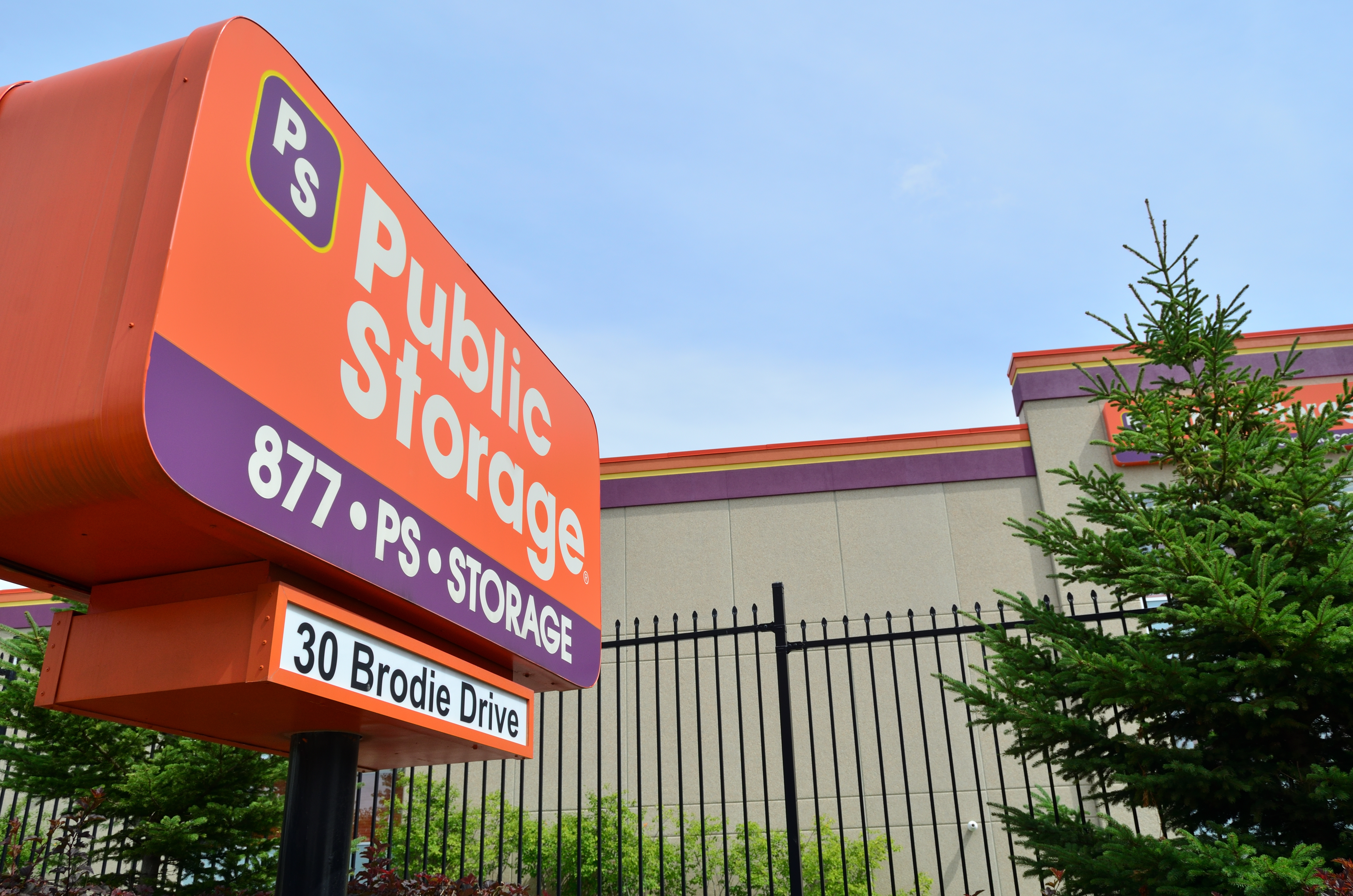 Public Storage at 30 Brodie Dr, Richmond Hill, ON L4B 3K8